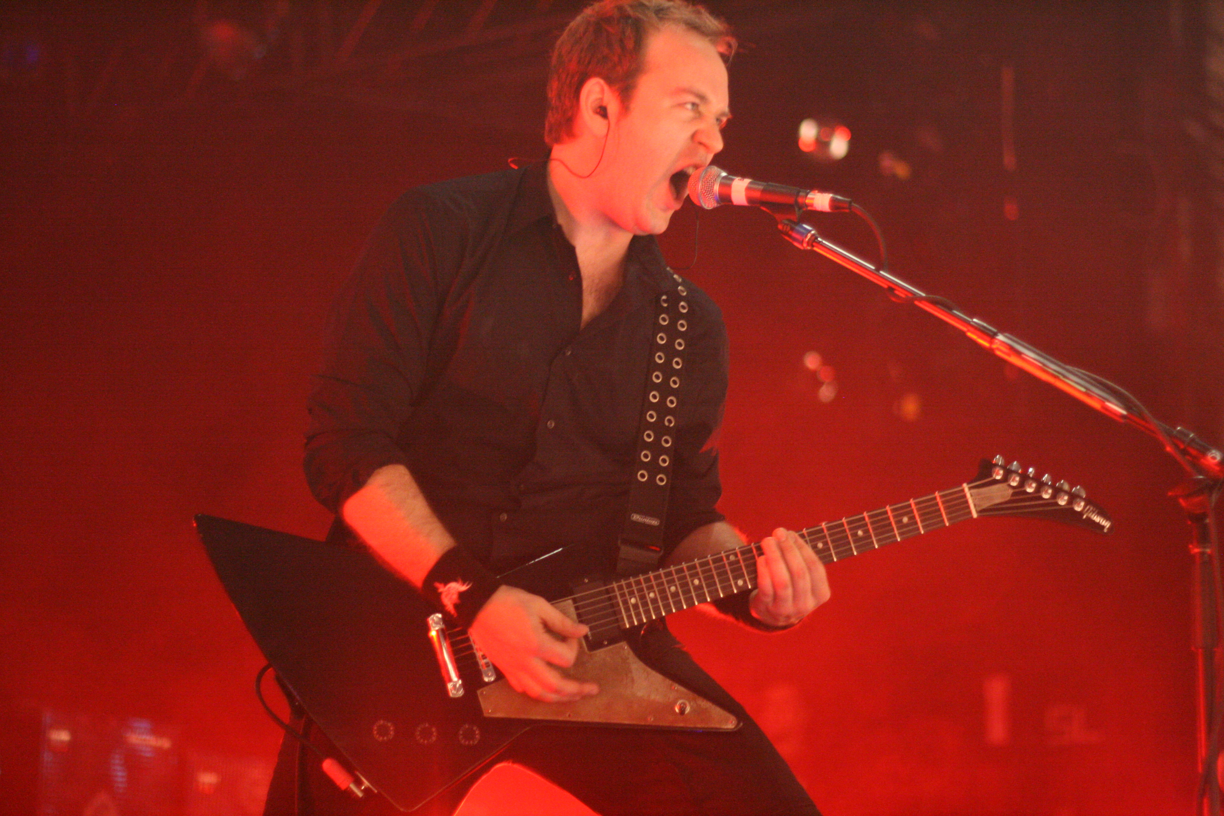 DETHKLOK | Nokia Theatre | 6.25.08